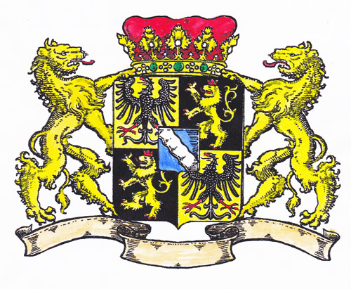 Coat of Arms of the Duke of Rausenbach